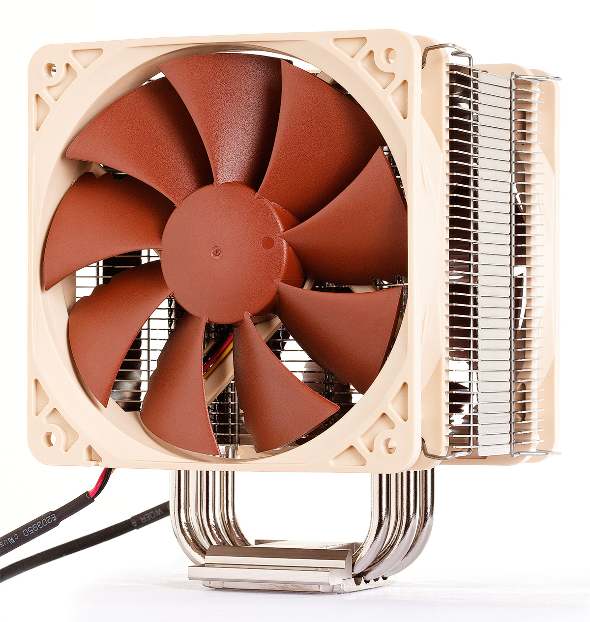 A Noctua NH-U12P SE2 cooler for central processing unit. Copper and aluminum, eight heat pipes, two NF-P12, 12 cm fans. H 158mm x W 126mm x D 120mm.